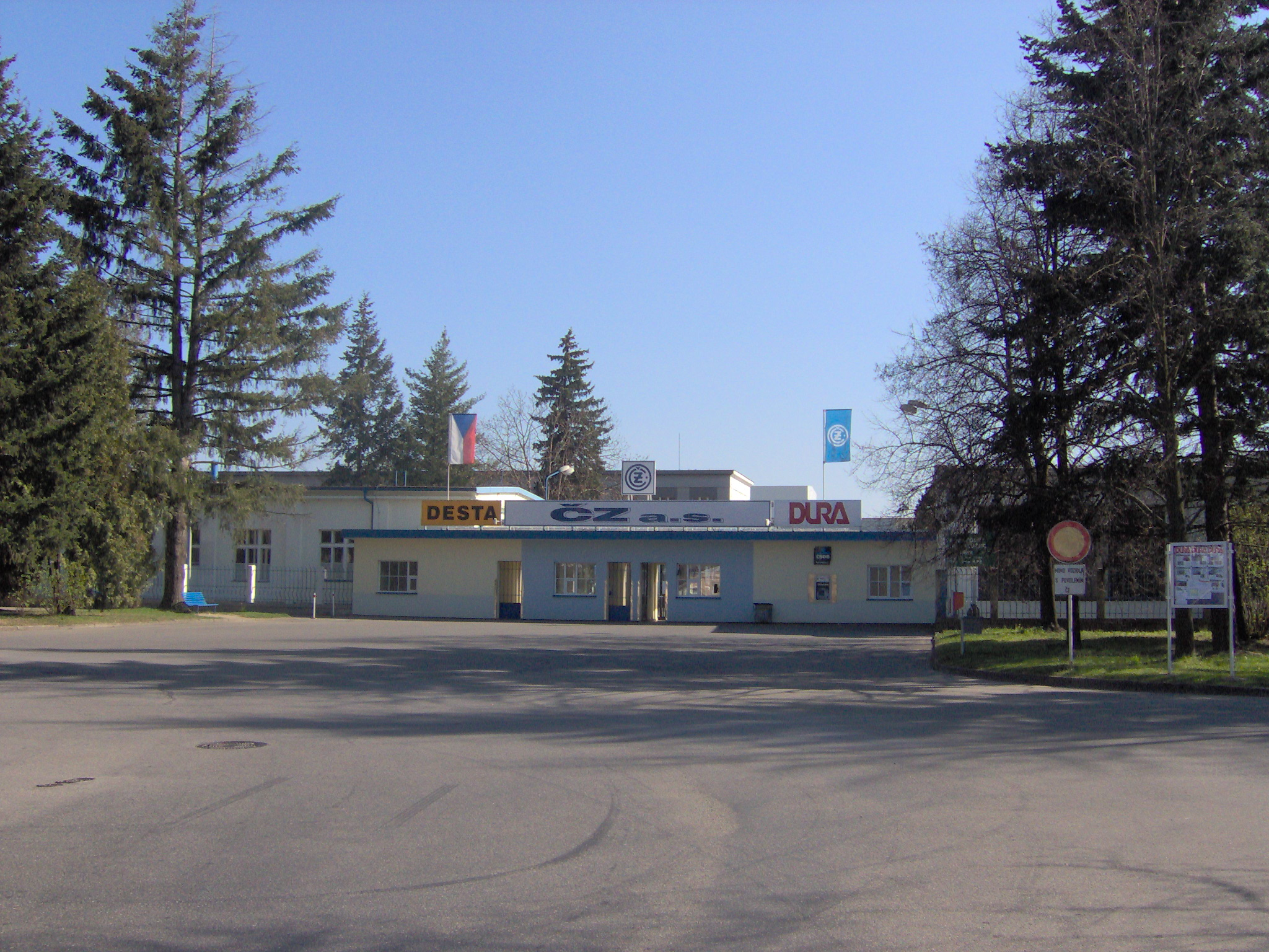 Entrance gateway of factory Česká zbrojovka in Strakonice